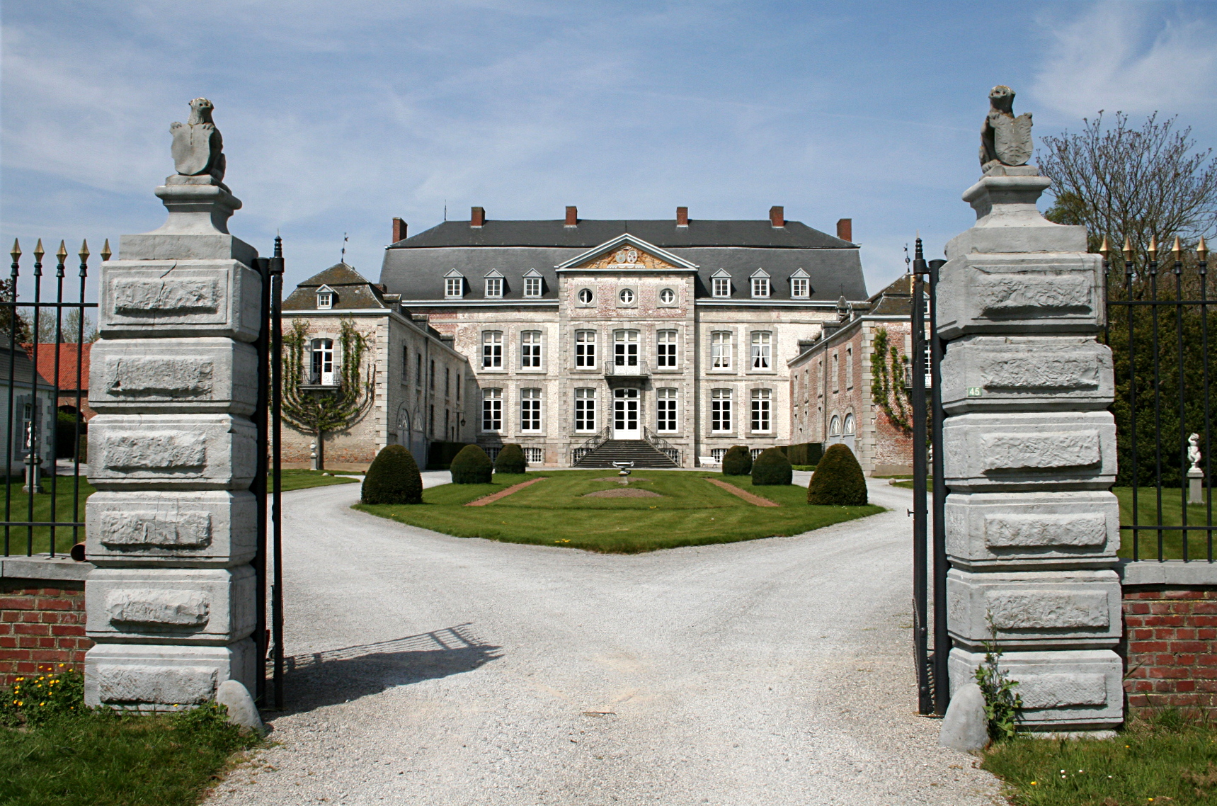 Les Waleffes(Belgium), castle of the de Potesta baron (XVIIIth century).